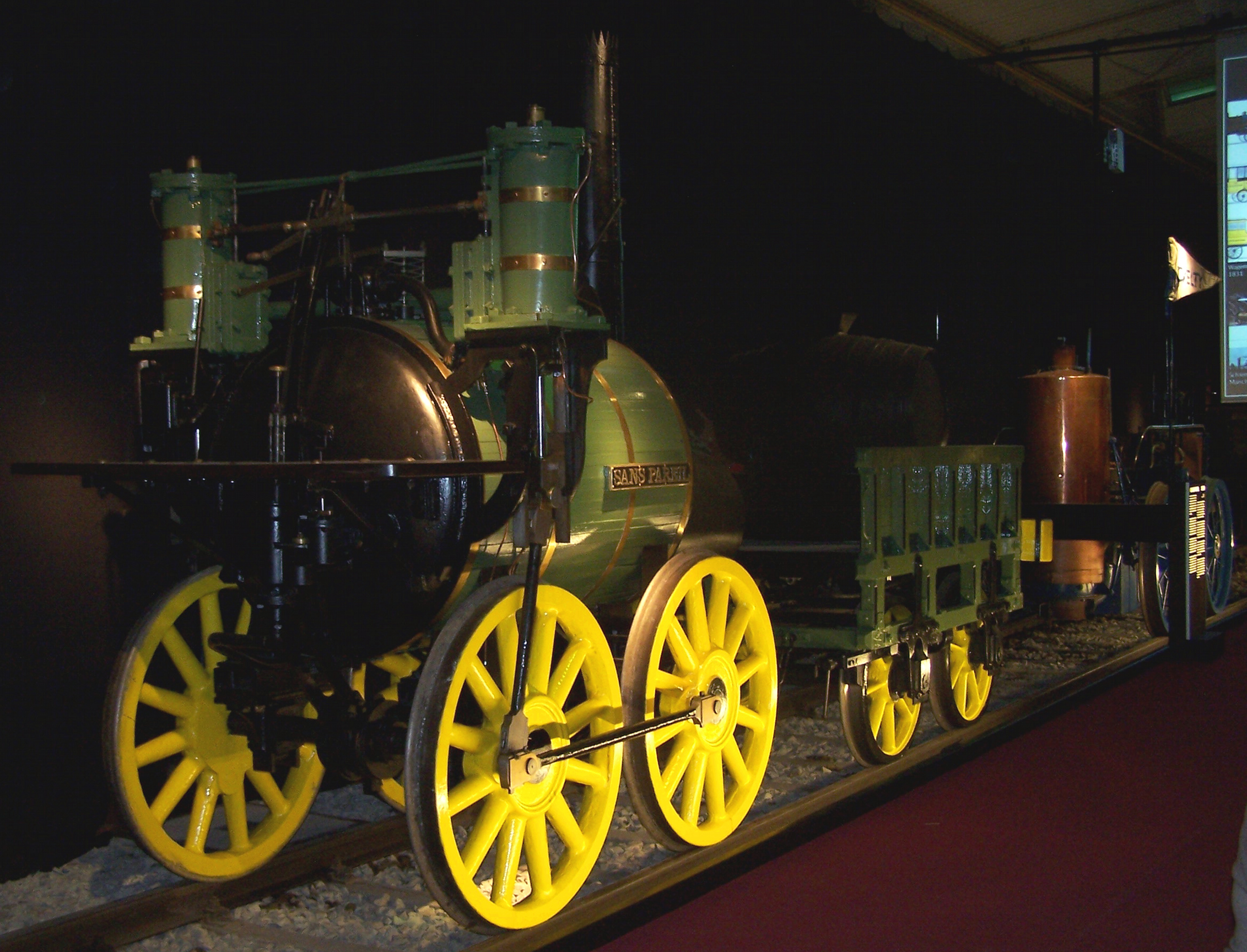 Replica from 1980 of the historic steam locomotive Sans Pareil from 1829, a competitor of the Rainhill Trials, in the Transport Museum in Nuremberg in the exhibition "Adler, Rocket and Co."